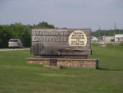 City welcome sign at Coffeyville, Kansas, USA